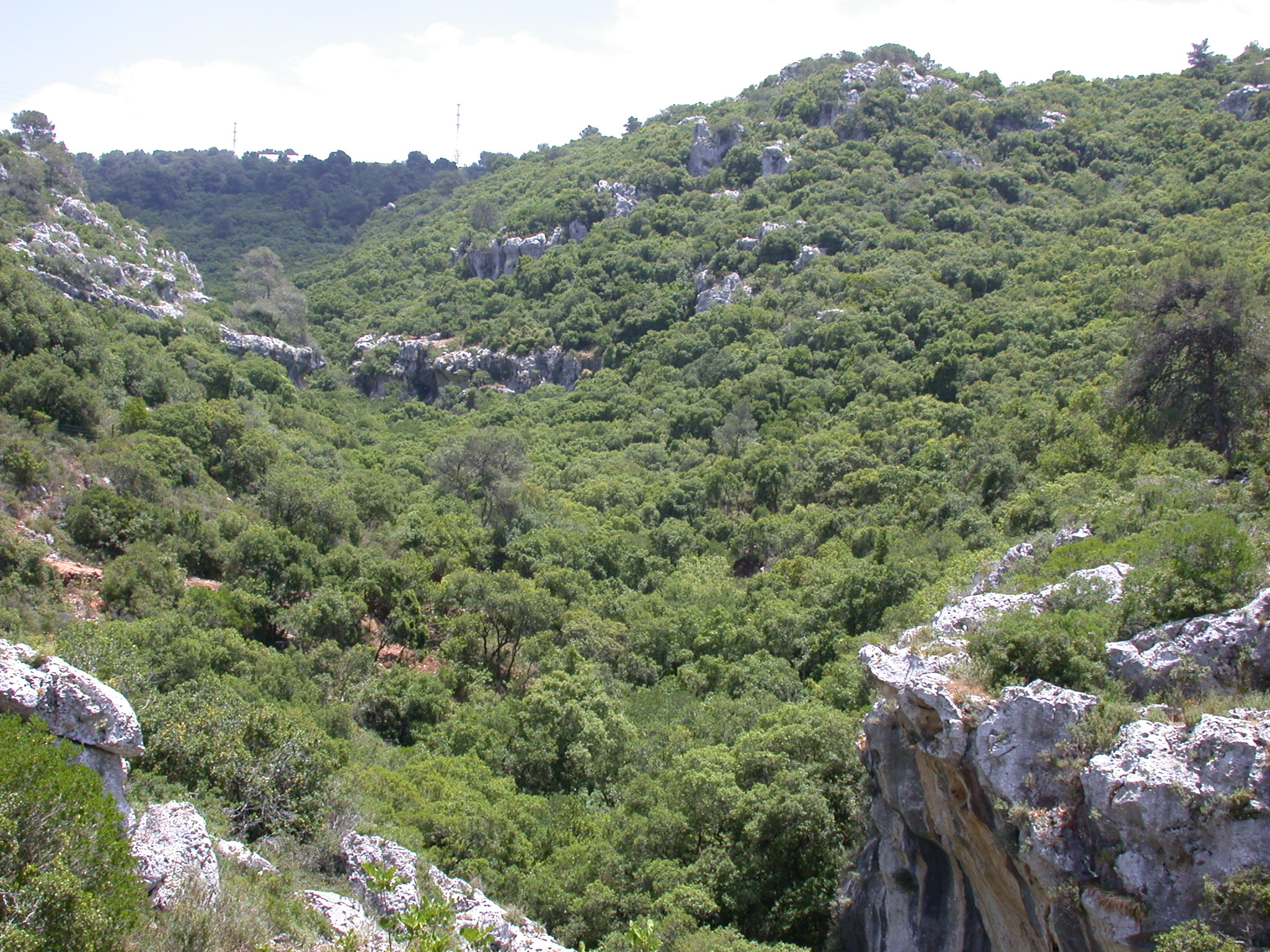 Mediterranean shrubland in Nachal Kelach, Mount Carmel, Israel, May 23, 2006. Dominant plant species include: Quercus calliprinos, Laurus nobilis, Viburnum tinus, Smilax aspera, and Clematis cirrhosa. A few Pinus halepensis trees can also be seen.